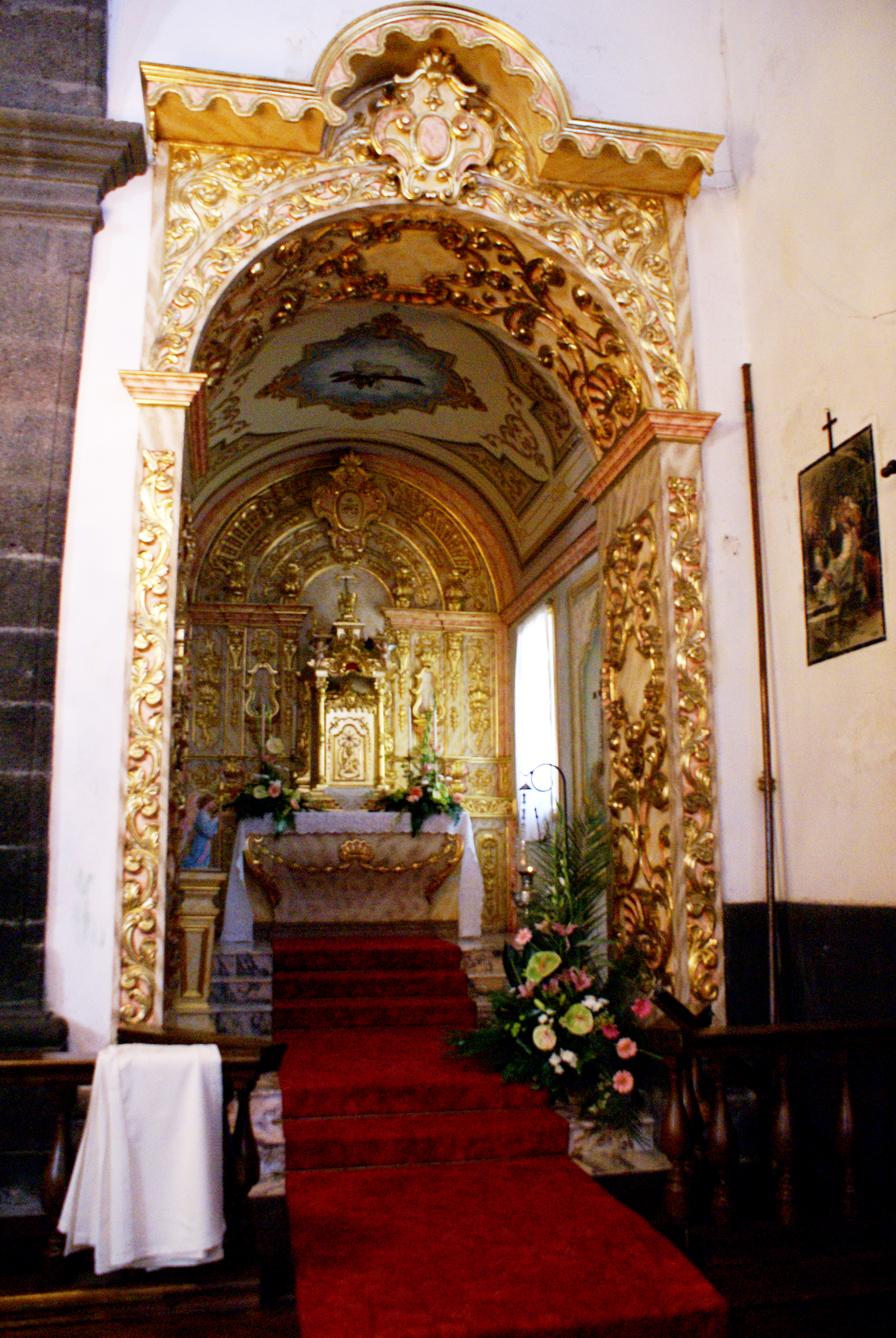 Lateral alter of the Church of Nossa Senhora da Ajuda, Ajuda da Bretanha, Ponta Delgada, São Miguel (Azores), Portugal